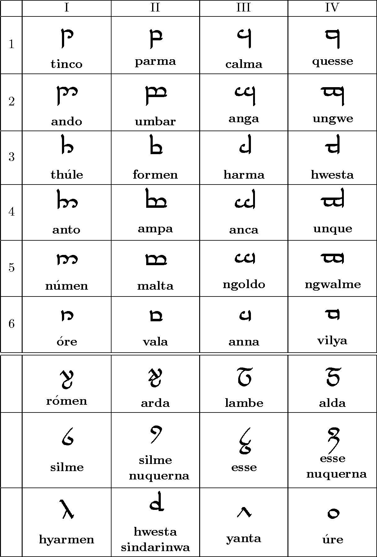 Tengwar with letter names. Font used is (c) Copyright 1988, 1994 Michael Urban